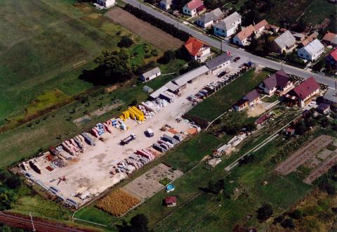 Városlőd, Hungary, aerialphotgraphy